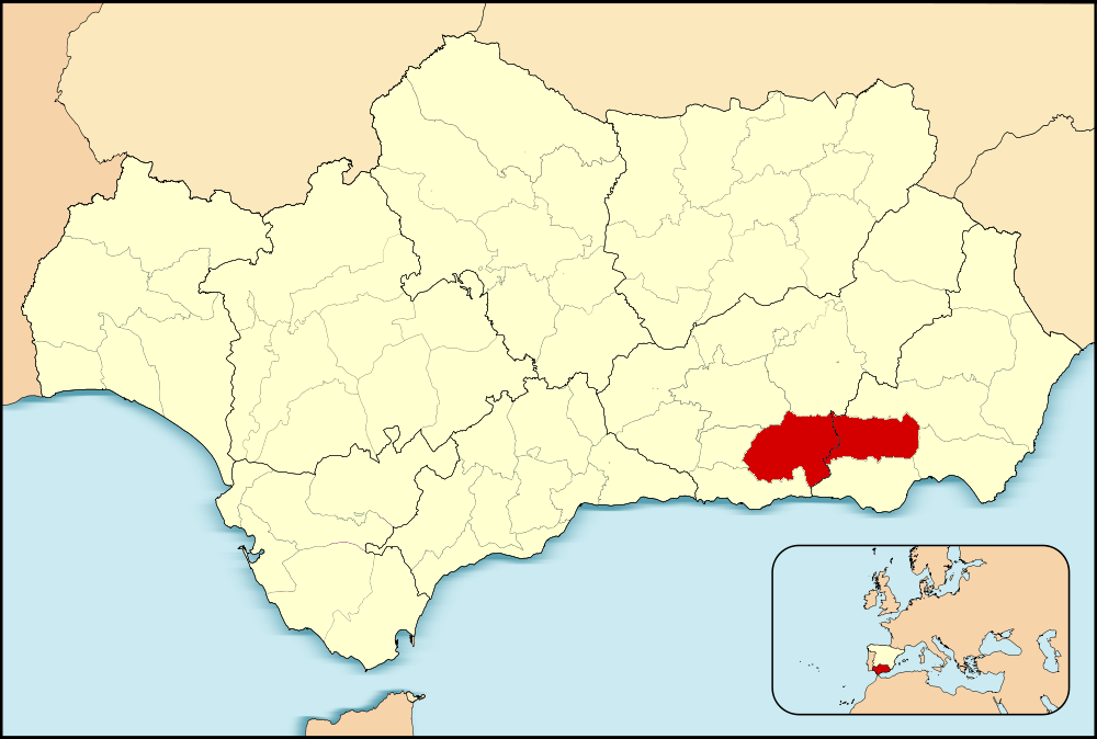 Location of La Alpujarra within Andalusia